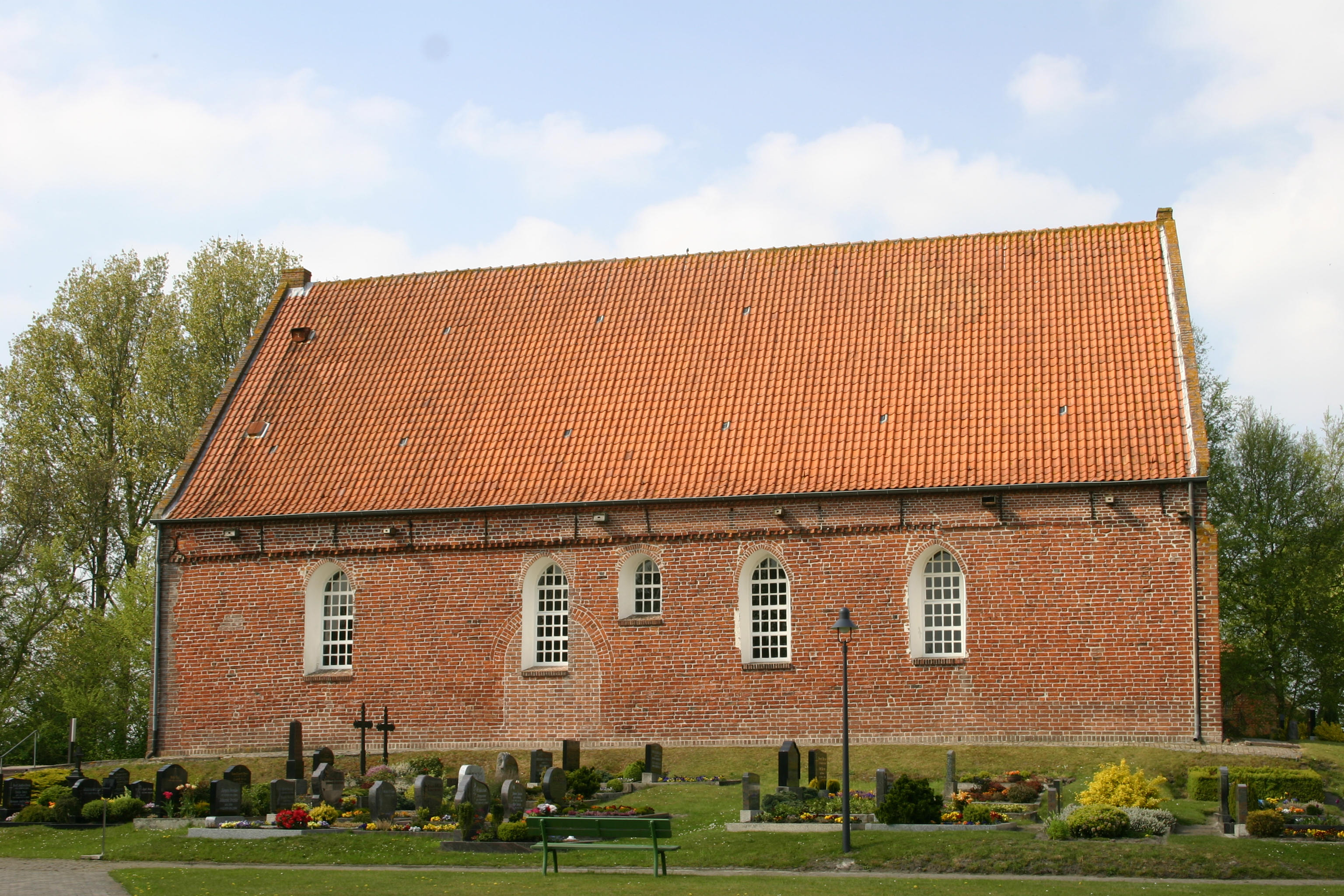 Historic Wibadi Church in Wiegboldsbur, district of Aurich, East Frisia, Germany